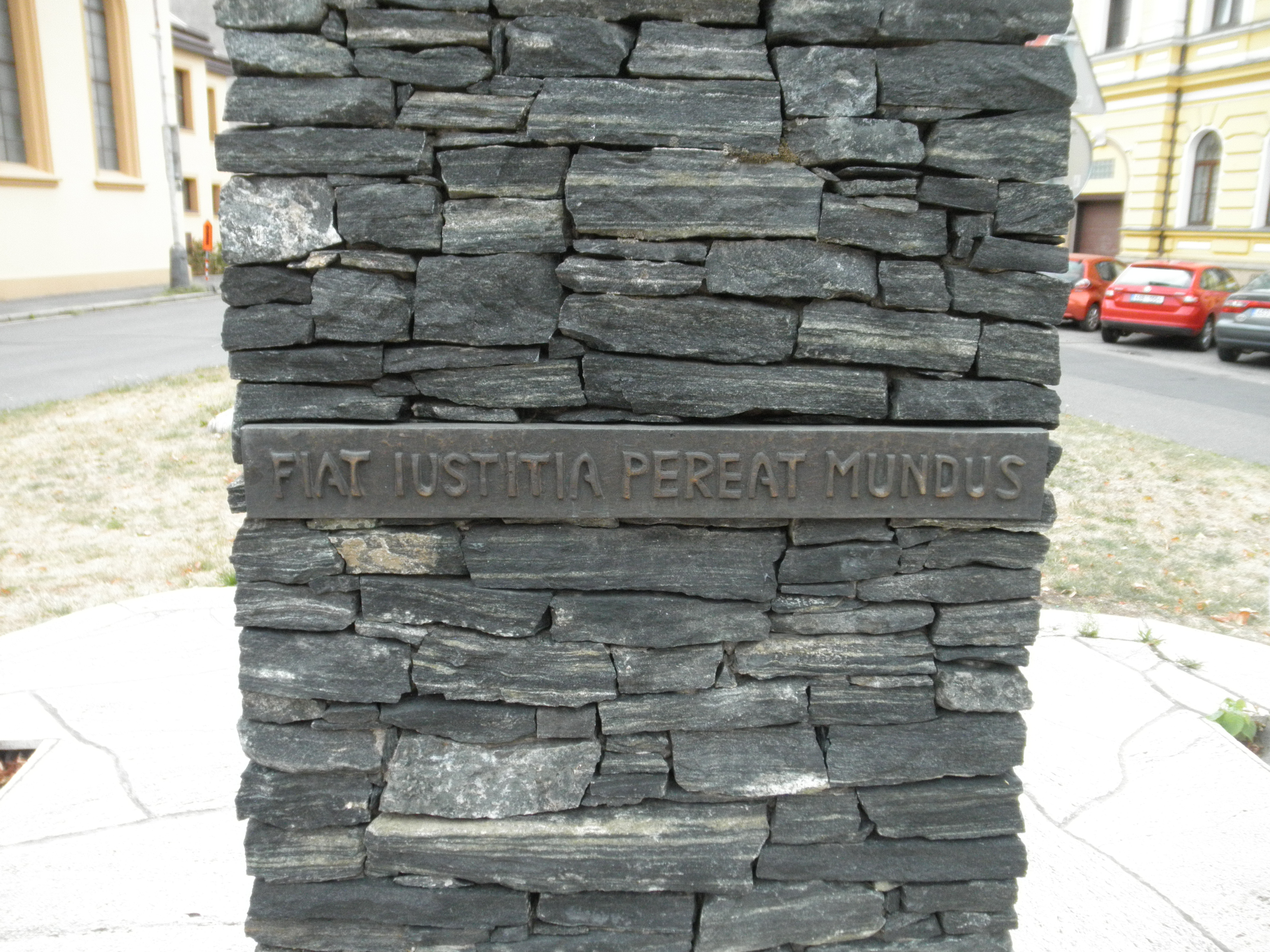 Inscription "Fiat iustitia pereat mundus". Detail of sculpture "The Scales of Justice" (Váhy spravedlnosti) in Politických vězňů street in Kolín. The sculptures was made by Ivan Erben in 2001.